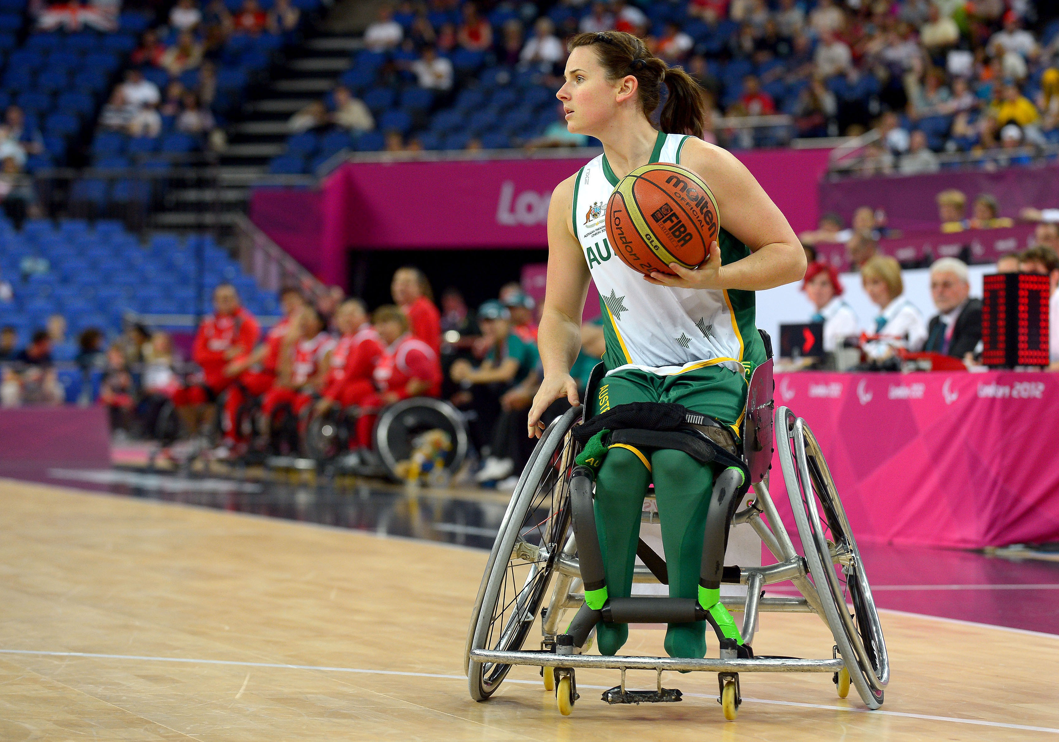 Photograph of Australian Paralympic team member Bridie Kean at the 2012 Summer Paralympic Games in London